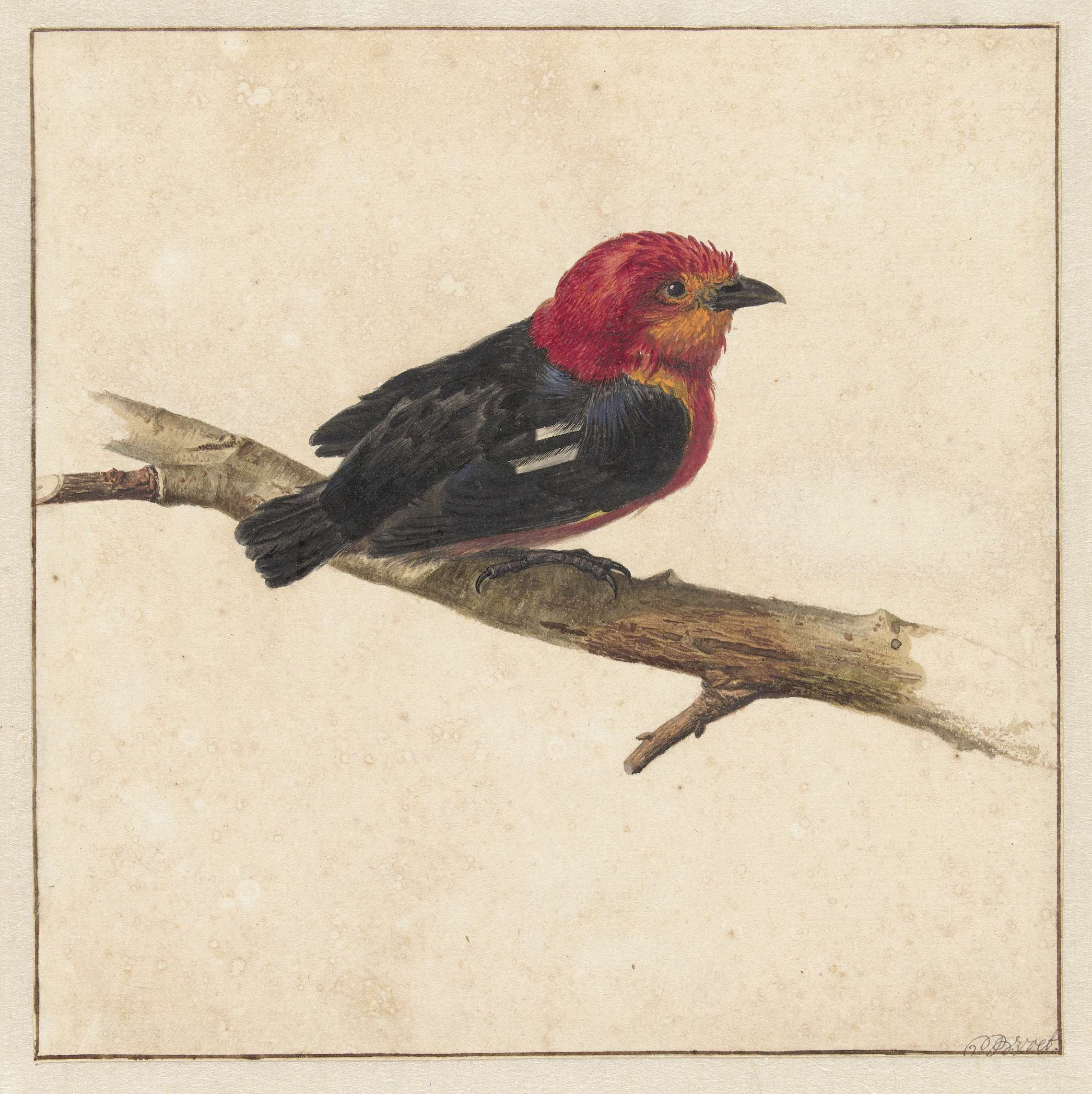 Iconclasscode 25F32(MANAKIN); drawing